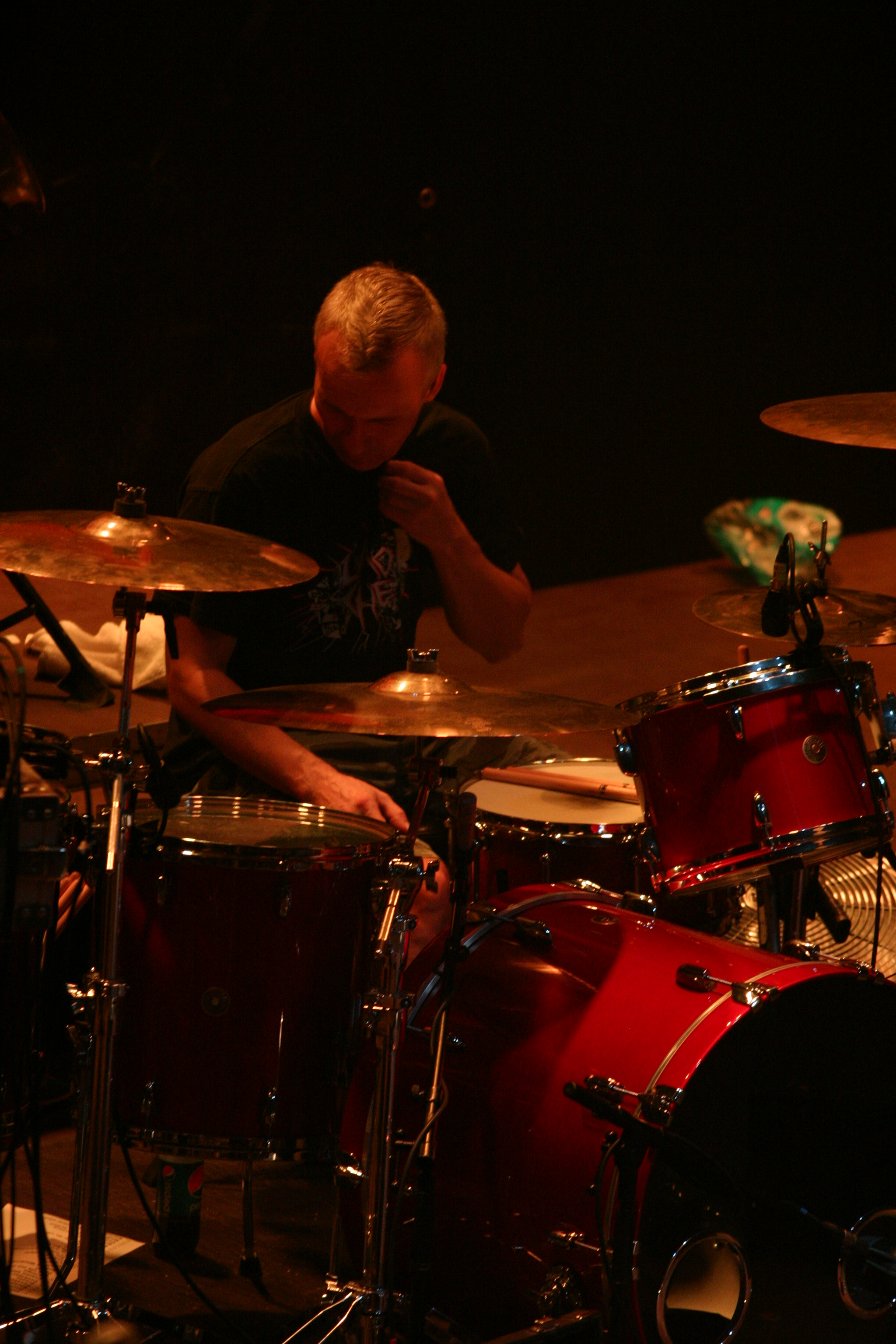 Tomasz Goehs in concert with KULT (Wytwornia / Lodz / 26.10.2014)